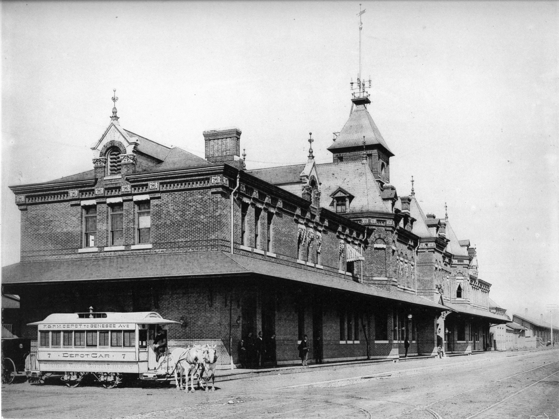 Pere Marquette Railroad Station, commonly known as the Potter Street Station. Preservationists are struggling to restore the station to its original condition.